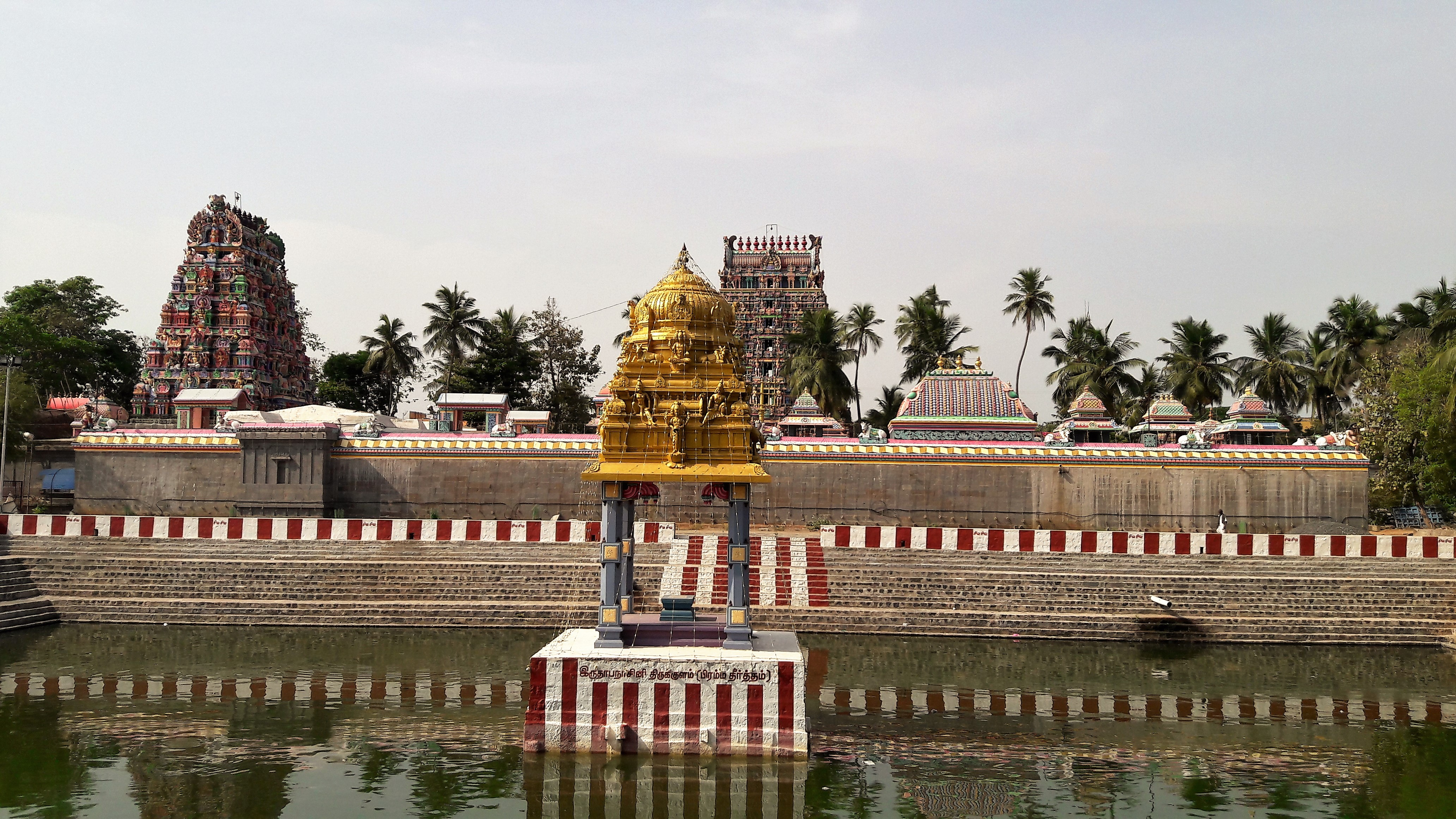 Kameeswarar temple, Villayanur